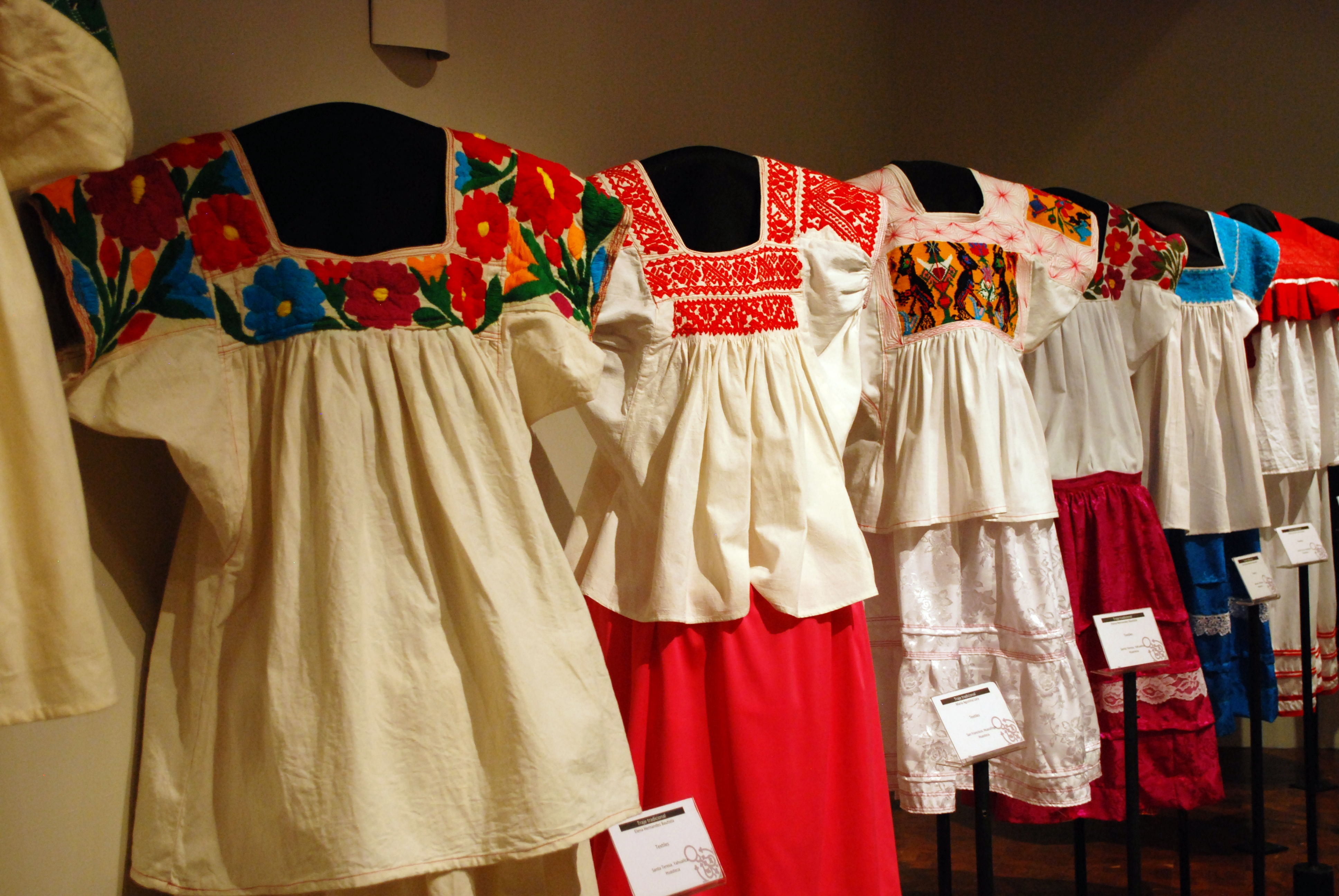 Traditional blouses and skirts from the Hidalgo Huasteca at a temporary exhibit dedicated to the state at the Museo de Arte Popular, Mexico City